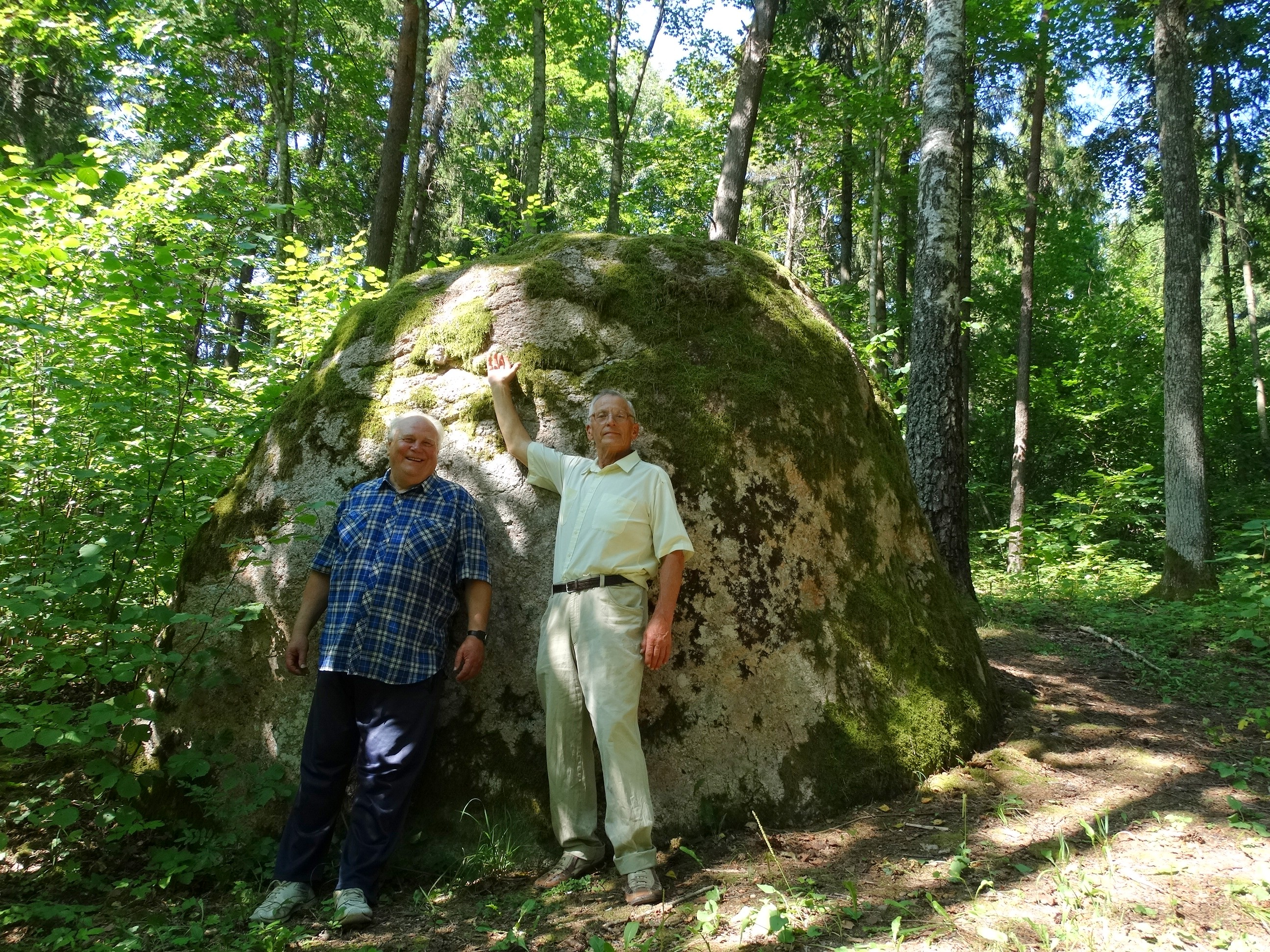 Stone „Ožakmenis“, Rokiškis District, Lithuania